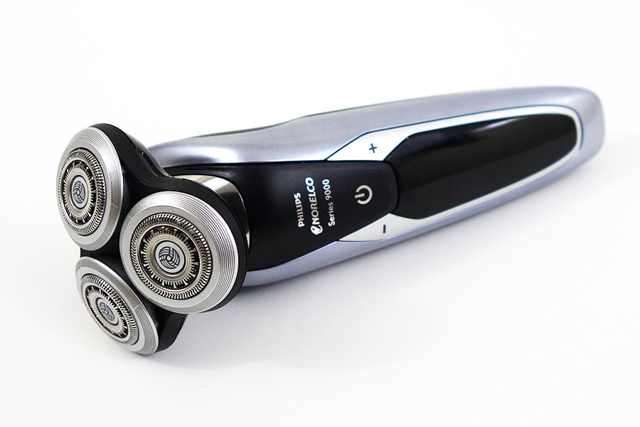 An electric shaver manufactured by Philips.